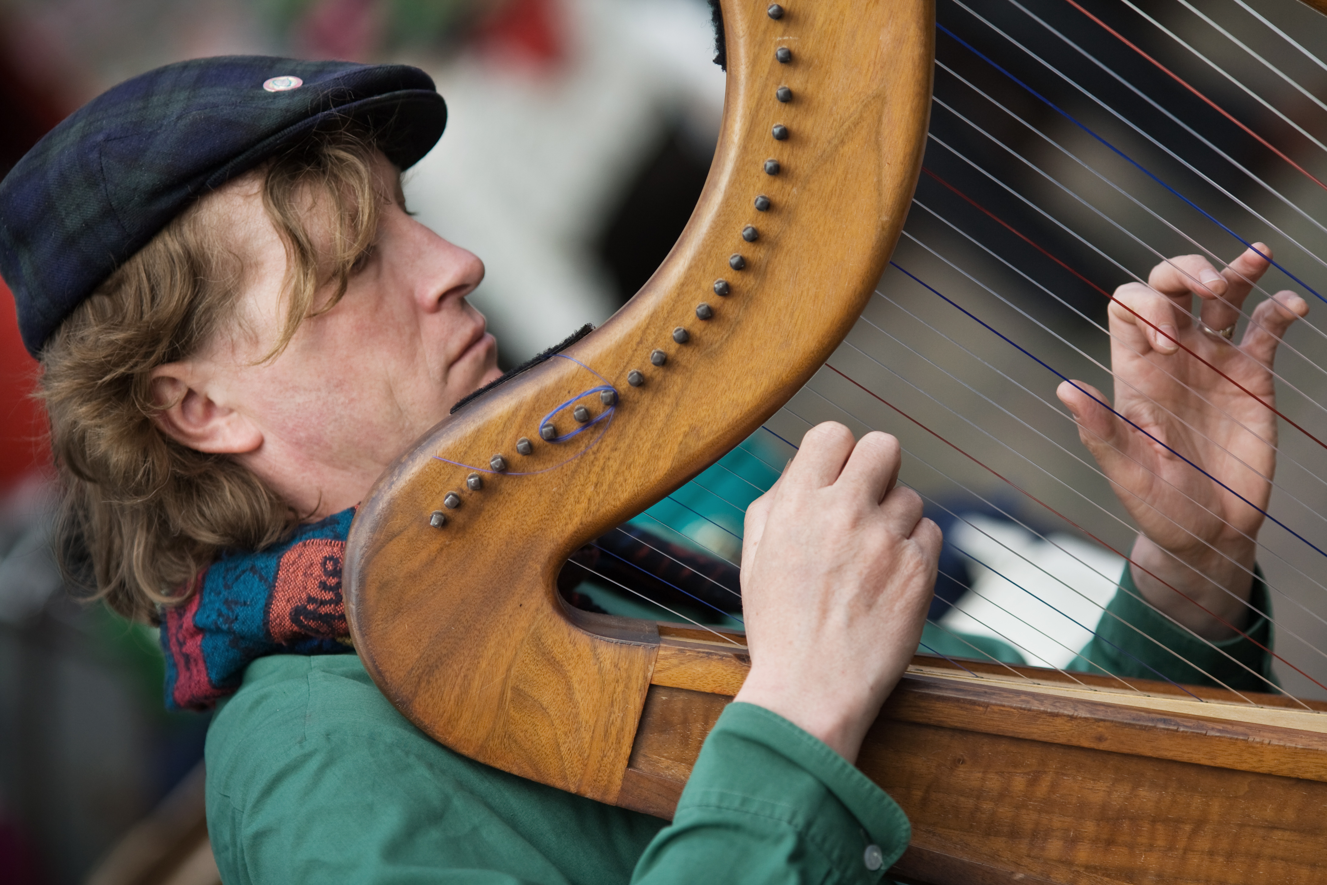 Harp player. Amsterdam, The Netherlands